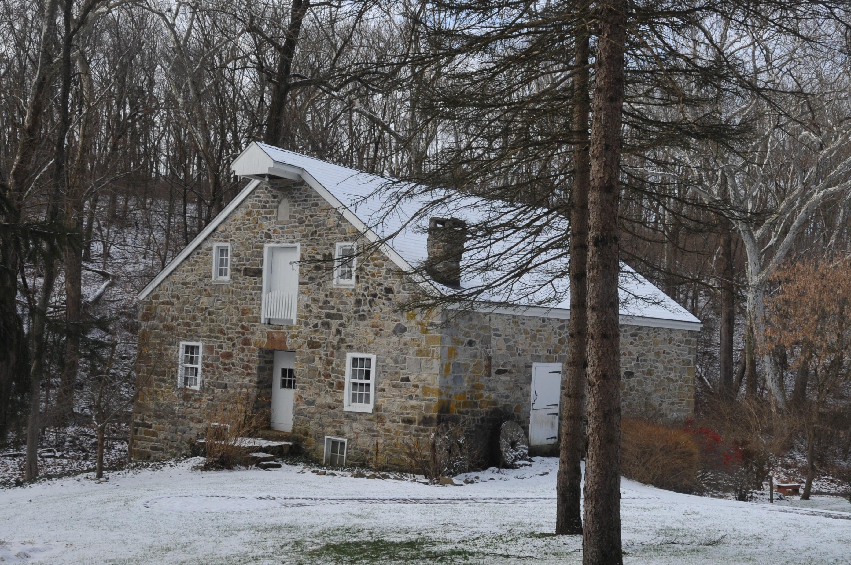 BOTH THE MILL AND THE HOUSE ARE CONTRIBUTING STRUCTURES IN THE REGISTRY SITE. NEARBY STANDS THE ABUTMENTS OF AN 1838 BRIDGE OVER THE POHATCONG CREEK